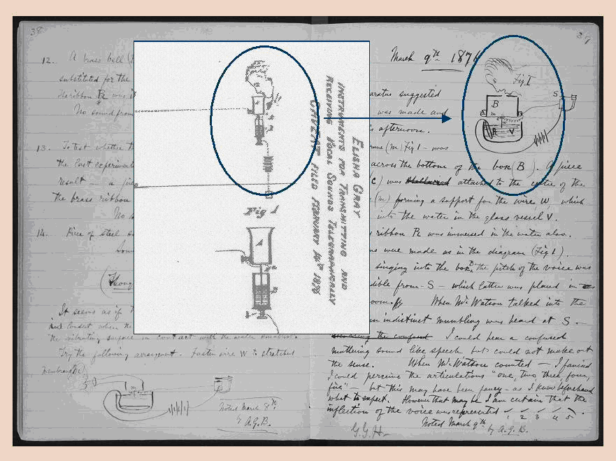 Comparison of the illustration of the telephone in Alexander Graham Bell's diaries and Elisha Gray's patent application.